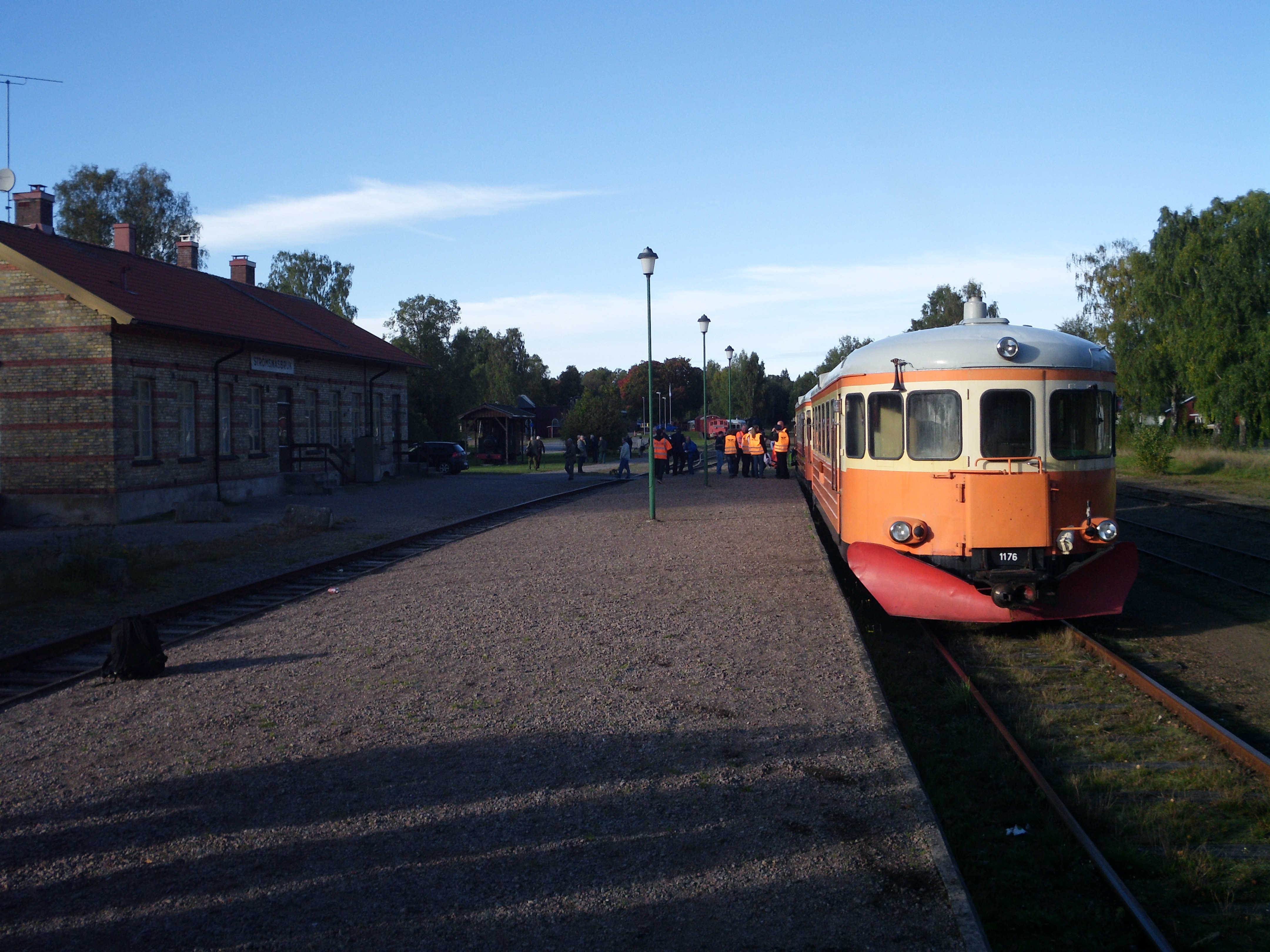 Railcar at a station in Strömsnäsbruk, Sweden, operated by Skåne–Smålands Jernvägsmuseiförening.